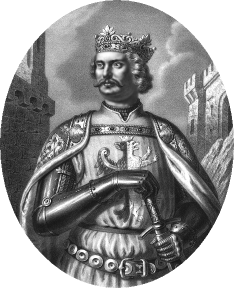 Wladislaus I of Poland